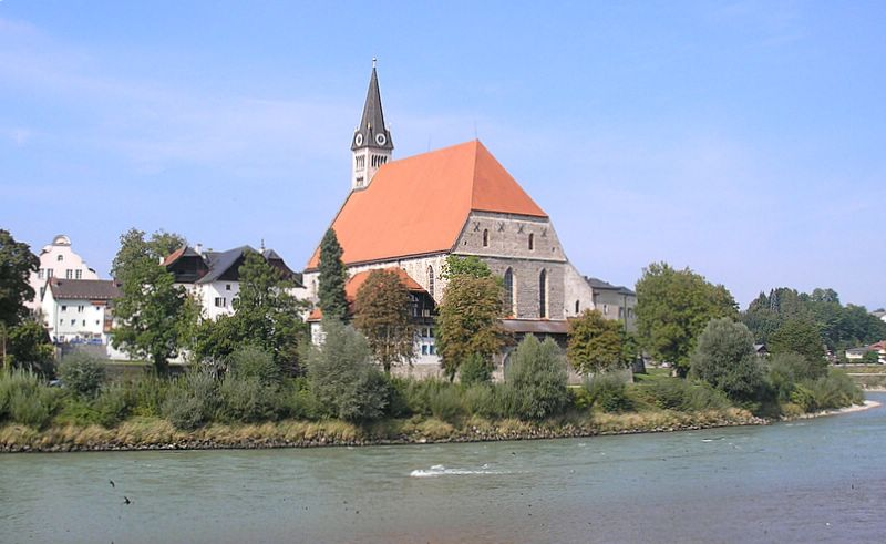 Parish and collegiate church church of Our Lady (Laufen an der Salzach, Landkreis Berchtesgadener Land, Upper Bavaria, Germany). Total view from the south east (Oberndorf, Austria)